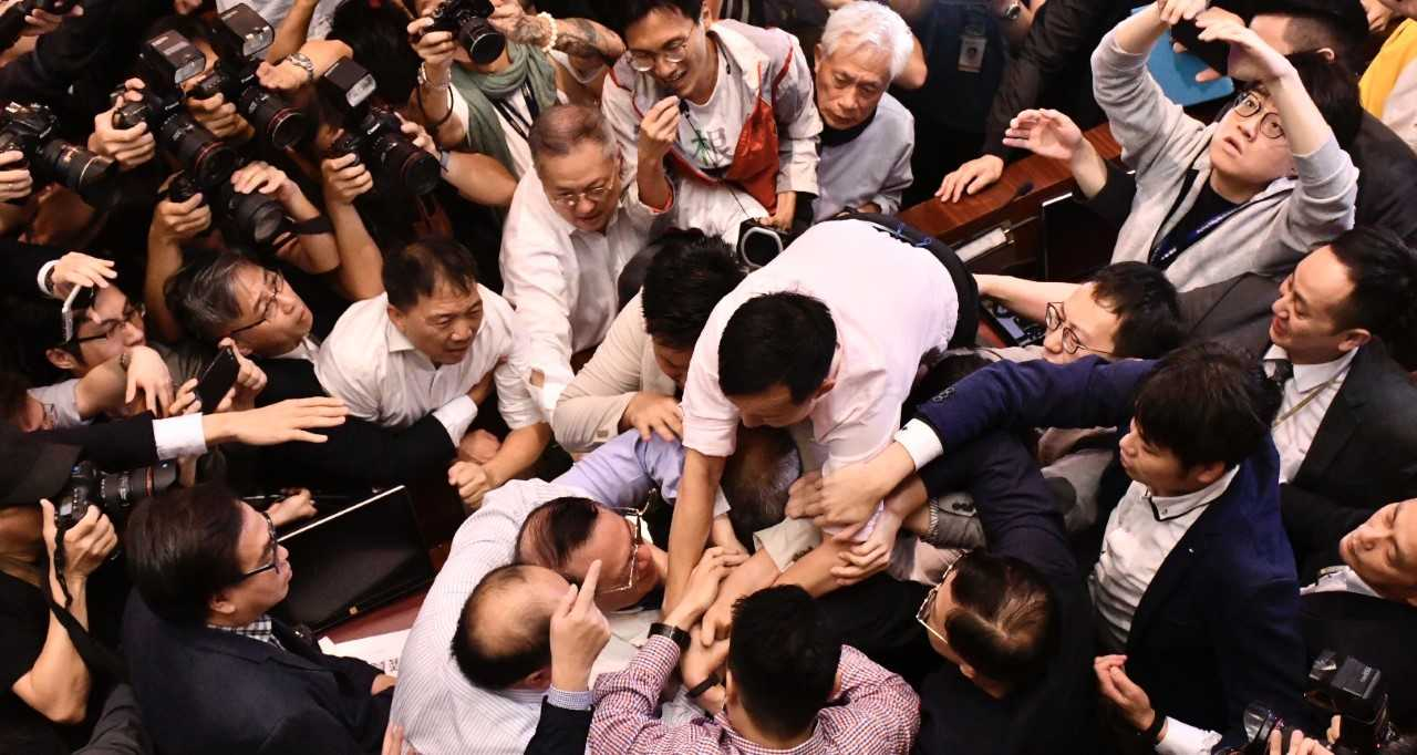 Two rival camps were fighting to get the microphone and that made the situation very terrible